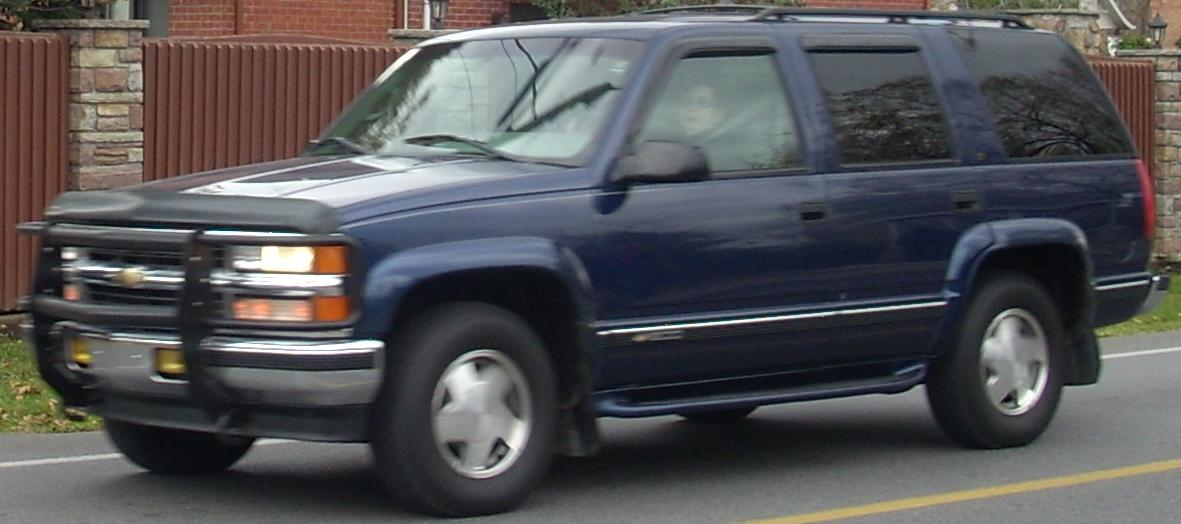 1995-1996 Chevrolet Tahoe photographed in Montreal, Quebec, Canada.